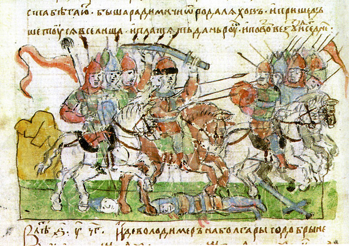 a miniature from medieval Radzivill Chronicle showing an ancient tribe Radimichs Беларуская (тарашкевіца): Мініятура Радзівілаўскага летапісу: Перамога Воўчага Хваста, ваяводы кіеўскага князя Ўладзімера Сьвятаславіча, над радзімічамі на рацэ Пішчане ў 984